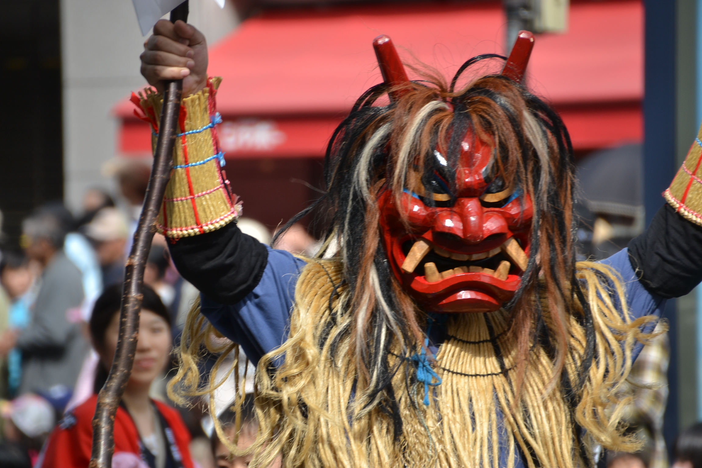 Hakata Dontaku Festival Parade 2011-05-04